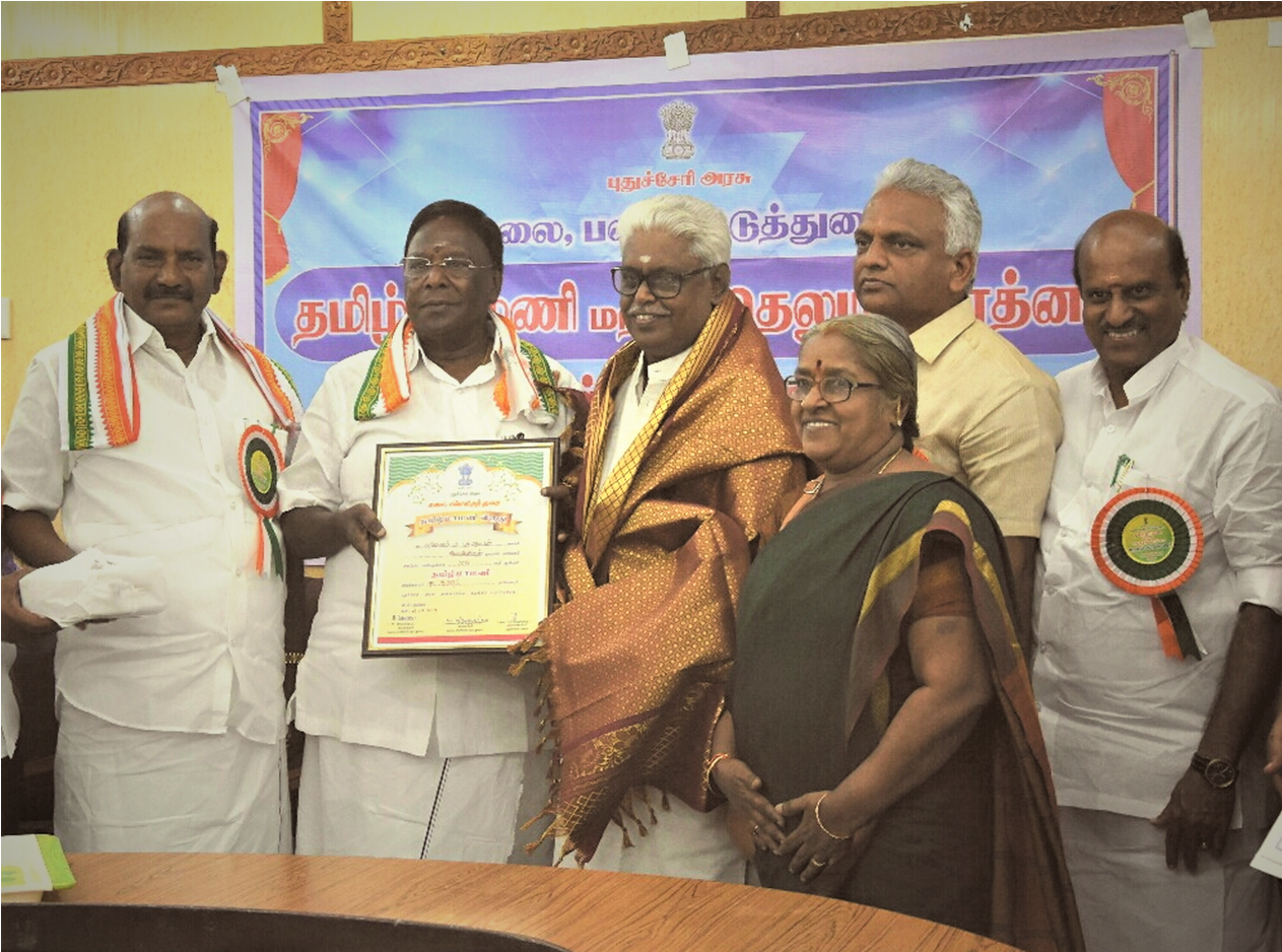 புதுவை அரசின் தமிழ்மாமணி விருது